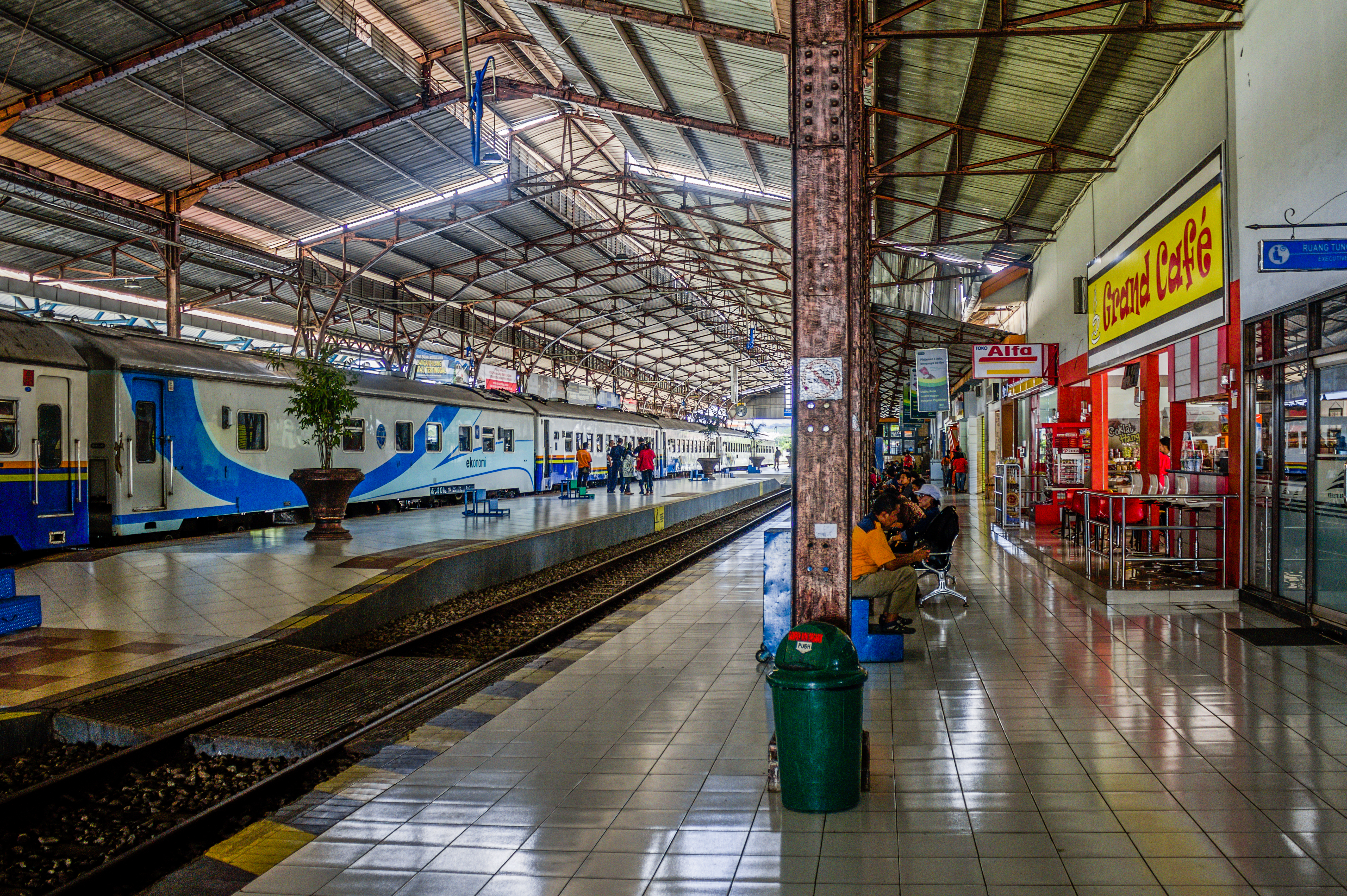 Interior of Purwokerto Station, Purwokerto 2015-03-20